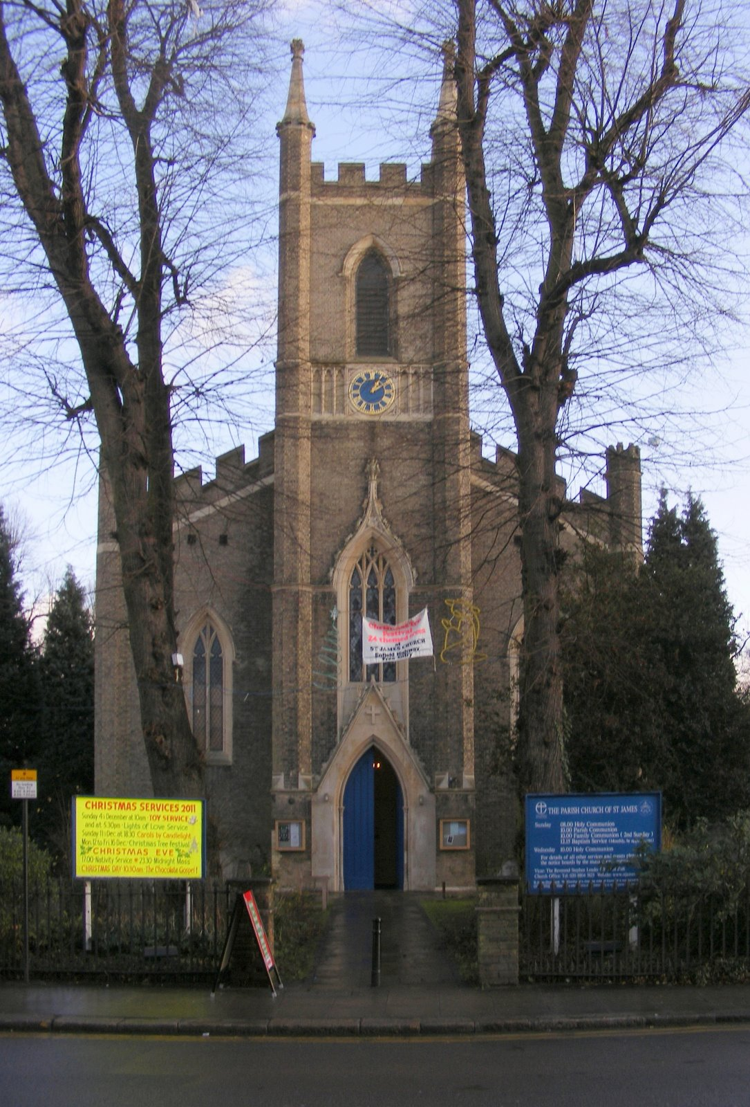 The Church of St James, Enfield Highway. In the London Borough of Enfield, England. A "Commissioners church", built in 1831, to the designs of William Conrad Lochner.